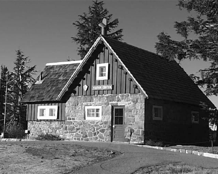 Kiser Studio in the Rim Village Historic District, Crater Lake National Park, Oregon, United States.